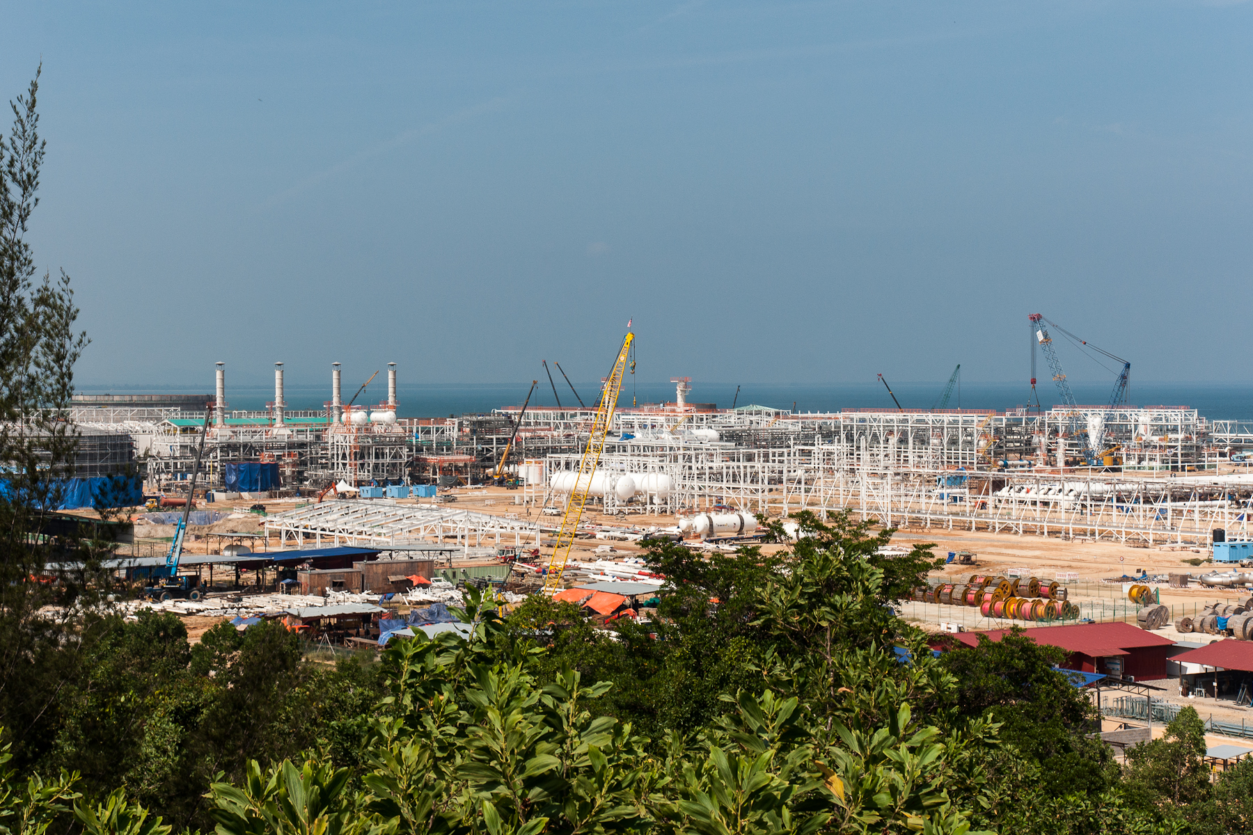 View of the Sabah Oil- and Gasterminal (SOGT) in Kimanis as part of the Sabah-Sarawak-Pipeline. Ongoing Construction work in August 2012